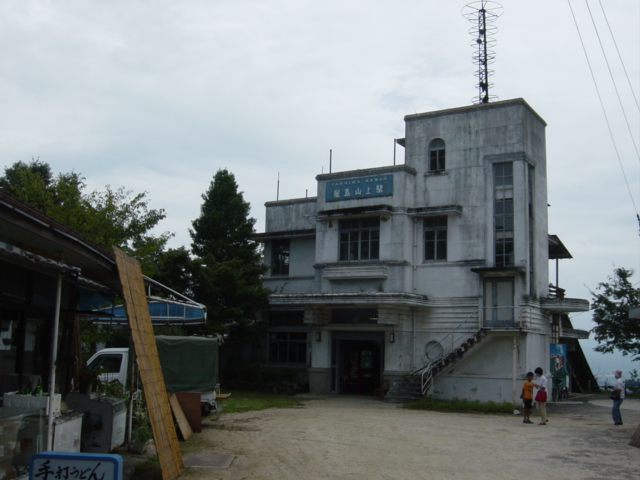 Yashima Cable Yashima-Sanjo Station